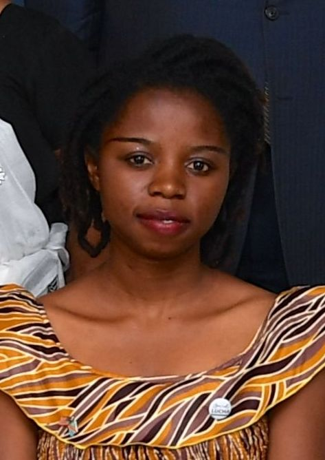 "First Lady Melania Trump poses for a photo with 2017 International Women of Courage Awardee Rebecca Kabugho of the Democratic Republic of Congo during a ceremony at the U.S. Department of State in Washington, D.C., on March 29, 2017" "Rebecca Kabugho is an activist in the LUCHA (Struggle for Change) citizen movement in the Democratic Republic of the Congo. Despite great repression, everyday threats and the risk of arrest, Rebecca bravely played a key role in a series of peaceful and non-violent demonstrations demanding that the Congolese government hold credible elections in 2016 as required by the Congolese Constitution. In February 2016, Rebecca and five of her male colleagues were arrested and convicted of inciting civil disobedience while planning a peaceful demonstration calling on President Kabila to abide by the Constitution. Rebecca and her colleagues were sentenced and spent six months in a prison in Goma. During her detention, she was lauded by social media and the international press as the youngest prisoner of conscience in the world—she was only 22 years old when she was arrested. On December 19,2016, Rebecca and 18 of her colleagues were arrested again in a peaceful demonstration demanding the resignation of the unconstitutional government before being released a week later. Through her courage, Rebecca has become one of the main activists of LUCHA and an inspiration for many young girls in her country. The organization continues to advocate for positive change in the Congo through non-violent resistance." [1]